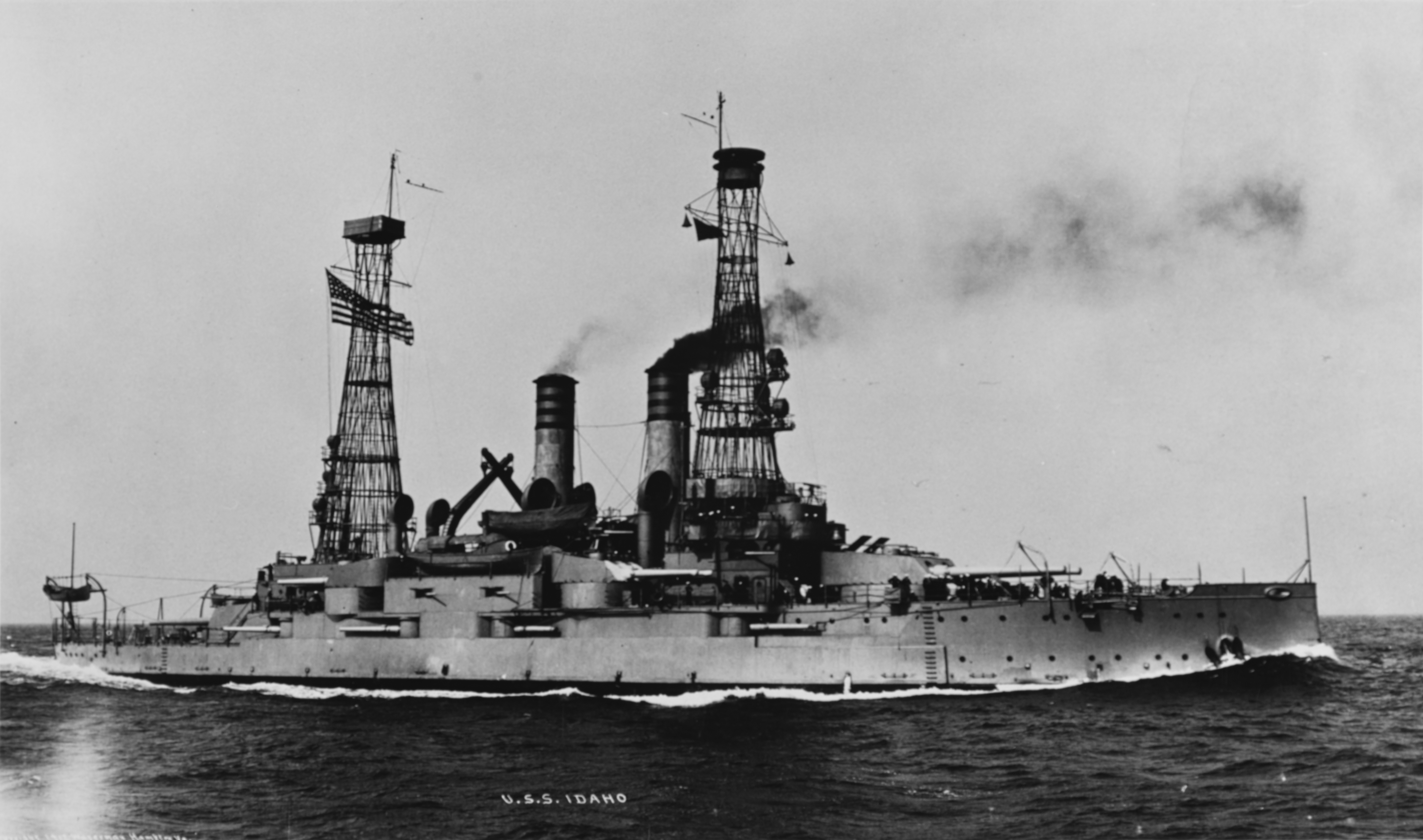 (Battleship # 24) Underway in 1912. Photographed by O.W. Waterman, Hampton, Virginia. U.S. Naval History and Heritage Command Photograph.